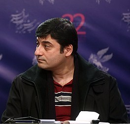 کیوان کثیریان در نشست نقد و بررسی «زندگی مشترک آقای محمودی و بانو»